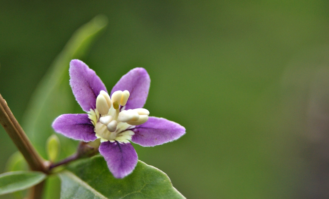 Lycium barbarum